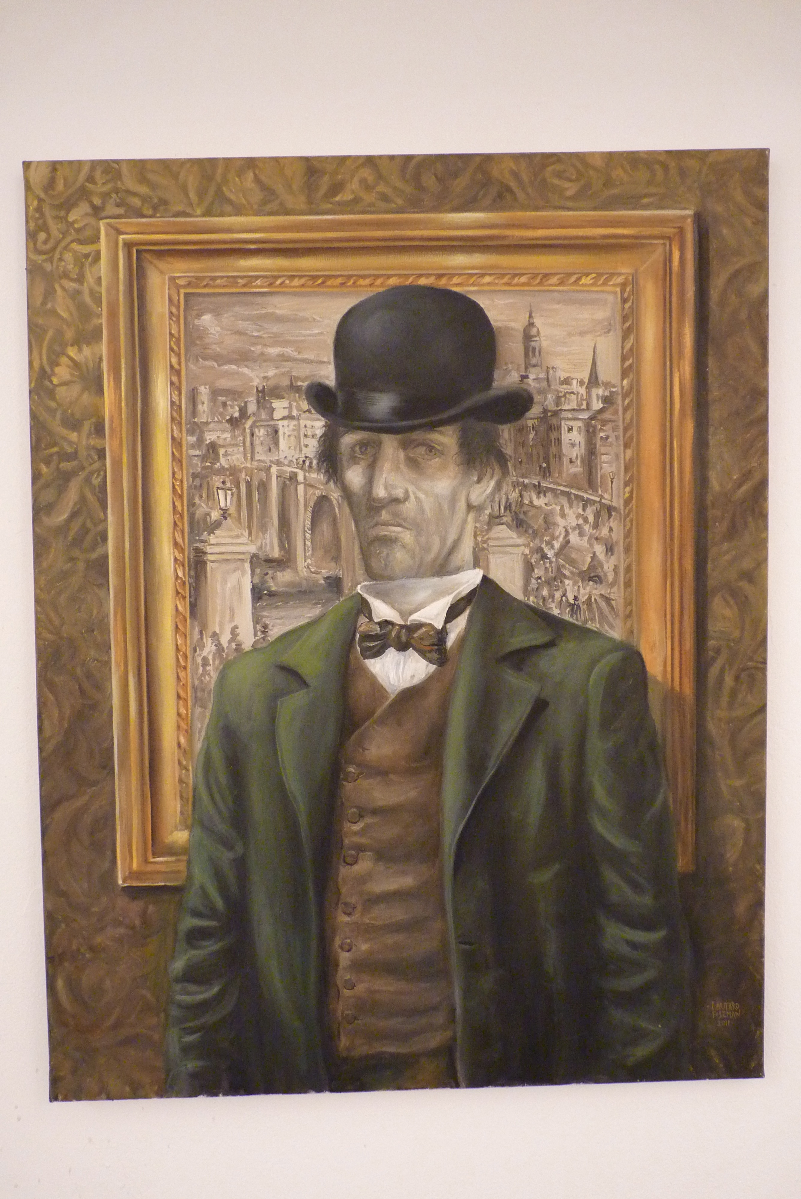 Painting by Lautaro Fiszman Based on drawing by Frank Vega Buenos Aires, Argentina